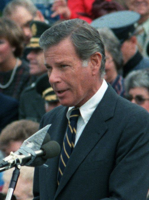 "Maryland Governor Harry Hughes speaks at reactivation ceremonies for the 29th Infantry Division (Light). Event took place in February 1985. Location: FORT BELVOIR, VIRGINIA (VA) UNITED STATES OF AMERICA (USA)"